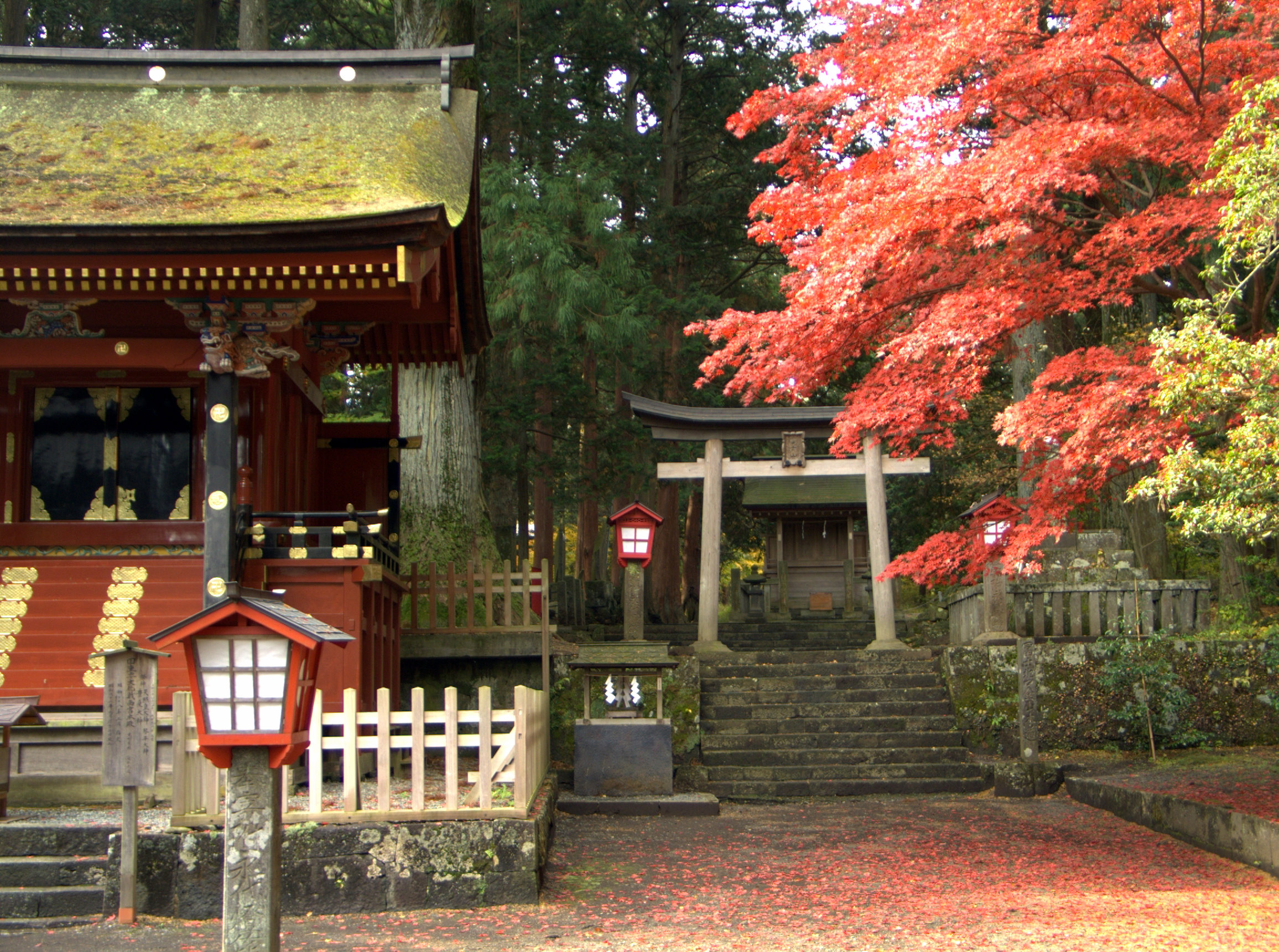 Kitaguchi Hongu Fuji Sengen Shrine. This is a view of part of the main Sengen Shrine, Fuji-Yoshida on the north side of Mt. Fuji. Its buildings date from 1615. Fujiyoshida City, Japan. This Shinto shrine is the starting point of the historic Fujiyoshida trail that leads up Mt. Fuji.